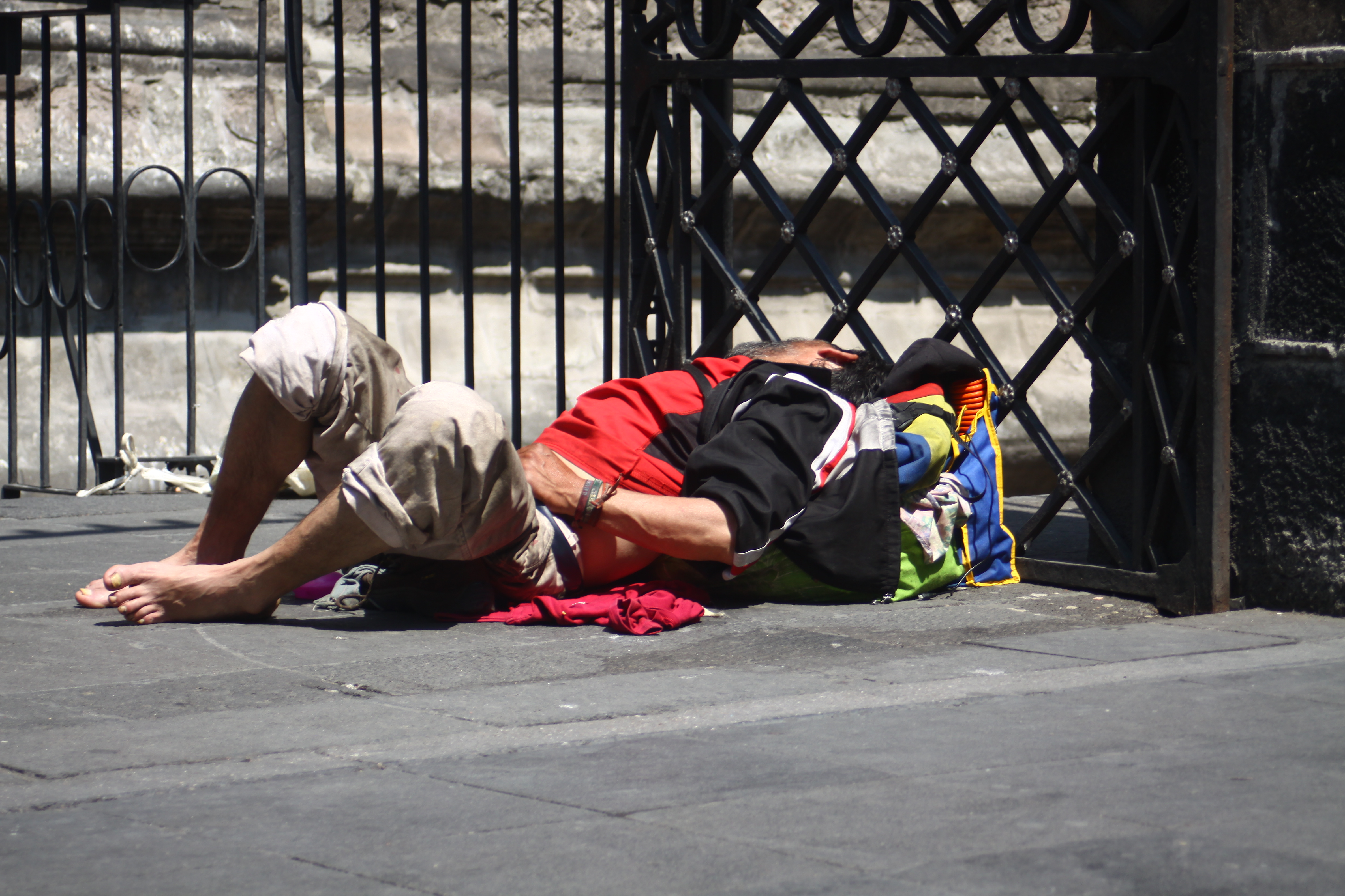 While people walking on the streets, many others need help, but the first ones have gradually lost many values like solidarity, compassion and others. Most of the people ignore what happens around. The society is missing empathy and a feeling of helping others. Now they just ignore the ones in need.